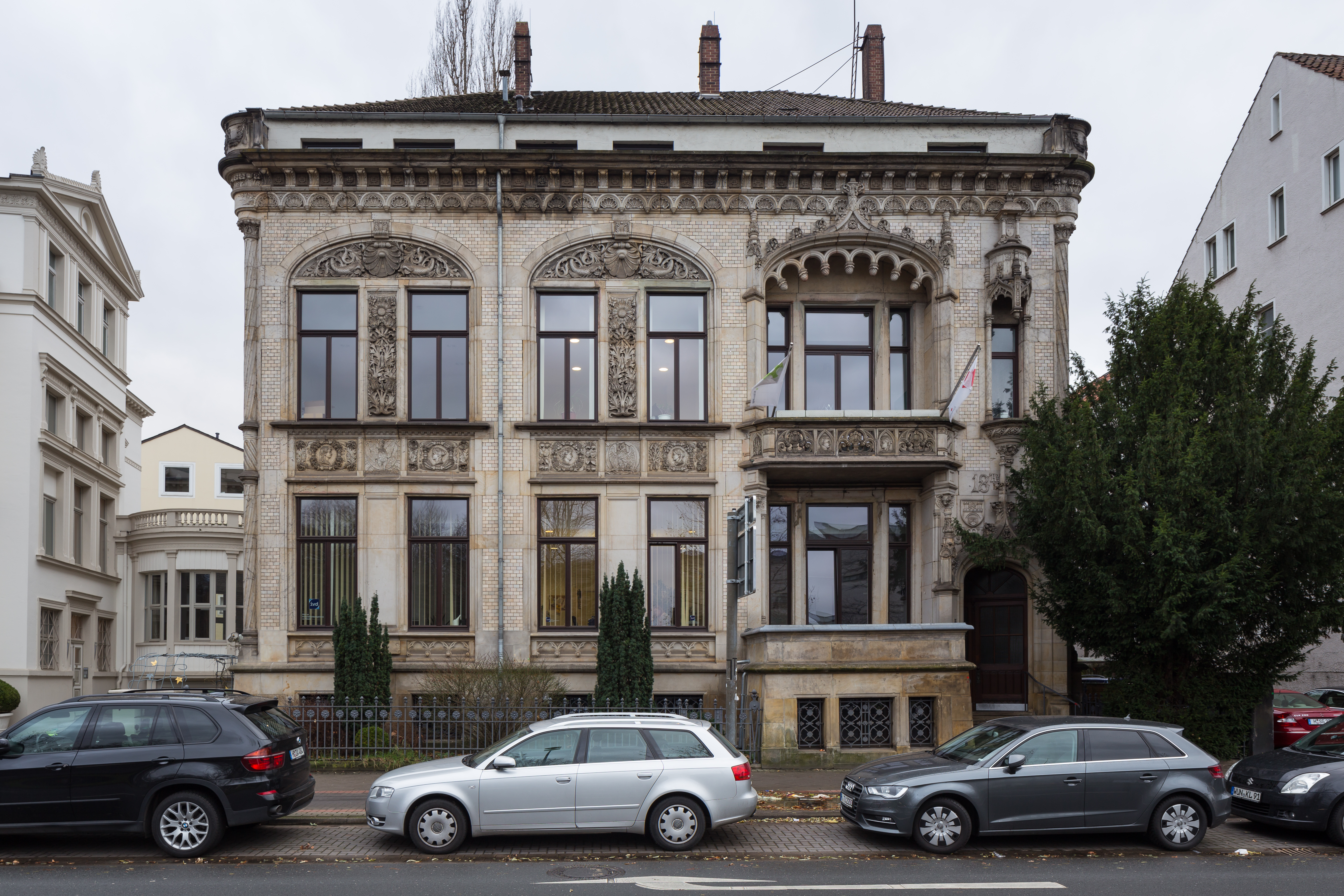 House located at Emmichplatz no. 3 in Oststadt quarter of Hannover, Germany.